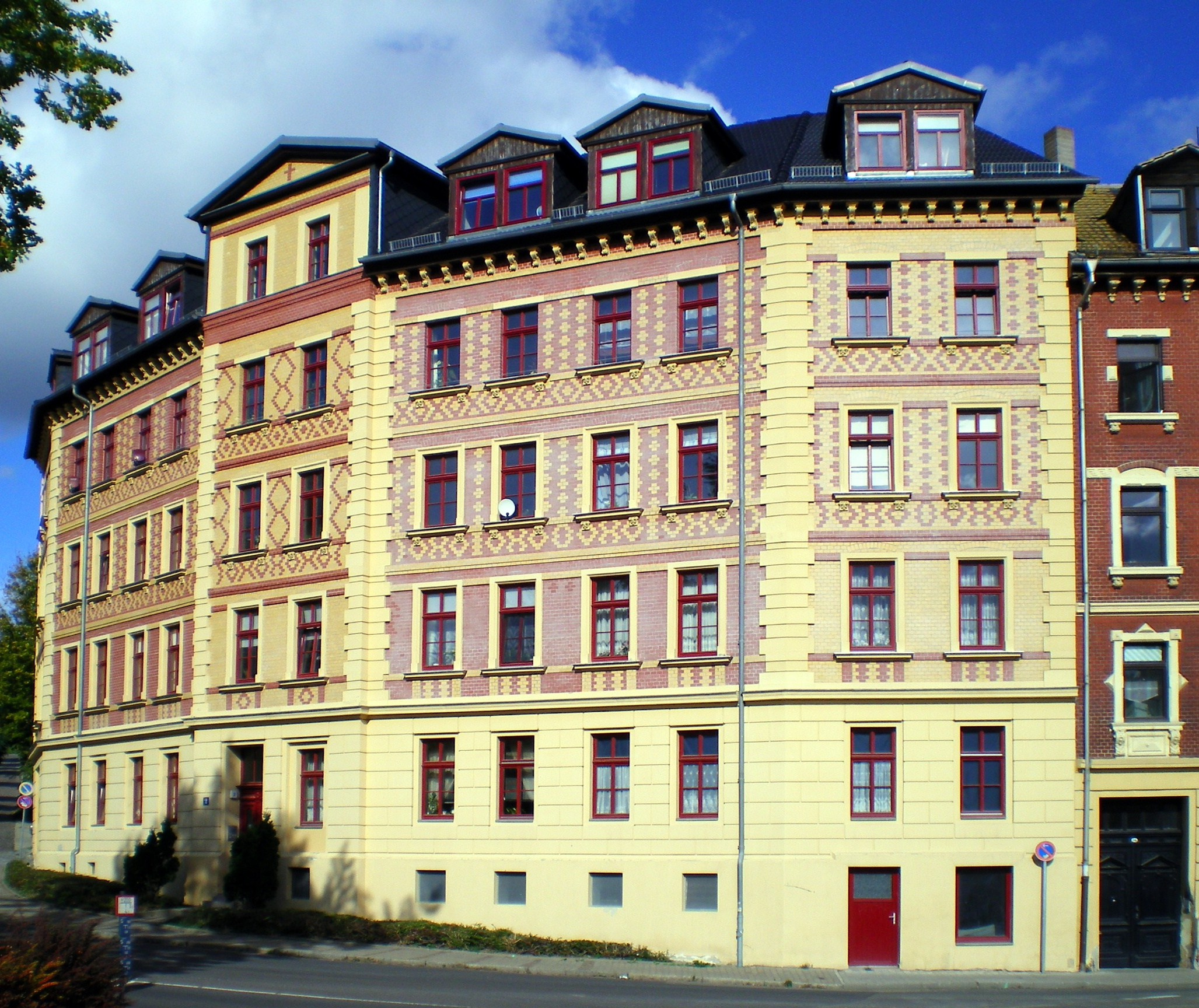 Corner house "Am Lerchenberg 2" in Altenburg/Thuringia